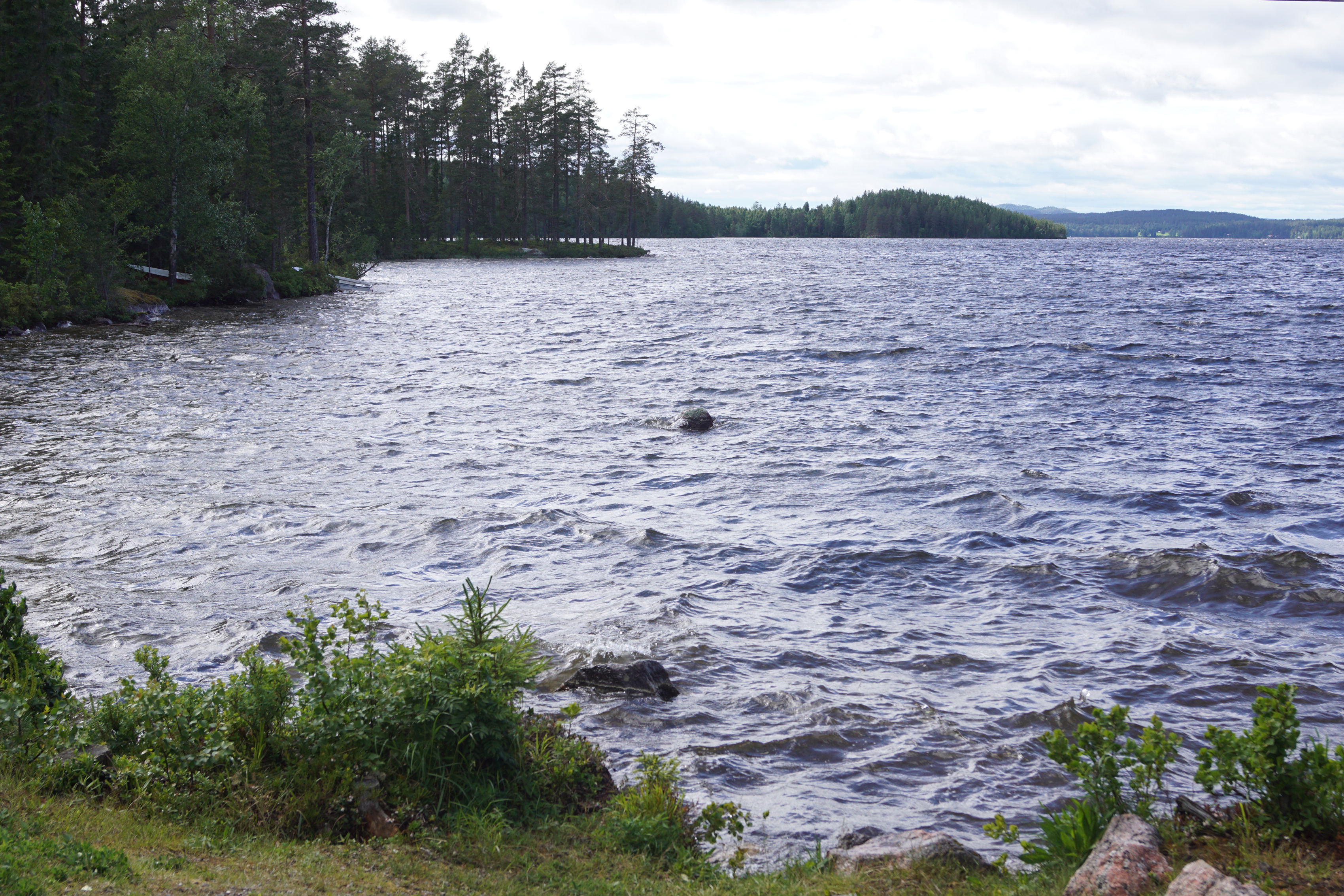 Hölesjön, a lake in Bollnäs Municipality, Sweden.